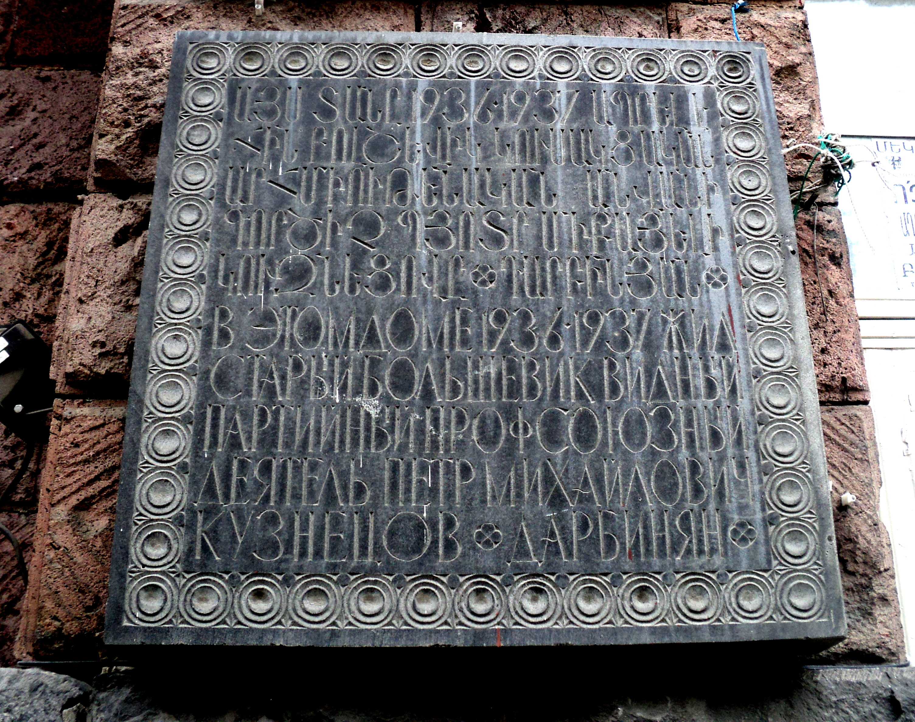 Peter Kuznetsov Darbinyan's plaque